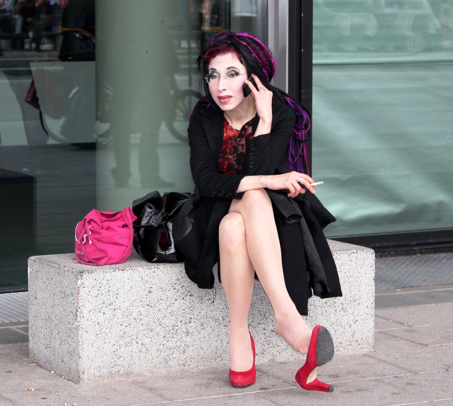 Sofi Oksanen at Frankfurt Book Fair 2012